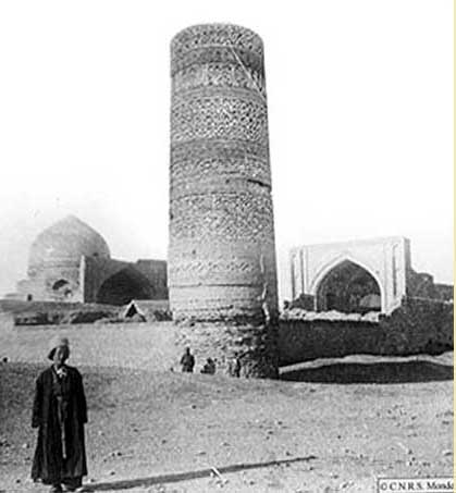 The oldest picture of the mosque jame Saveh